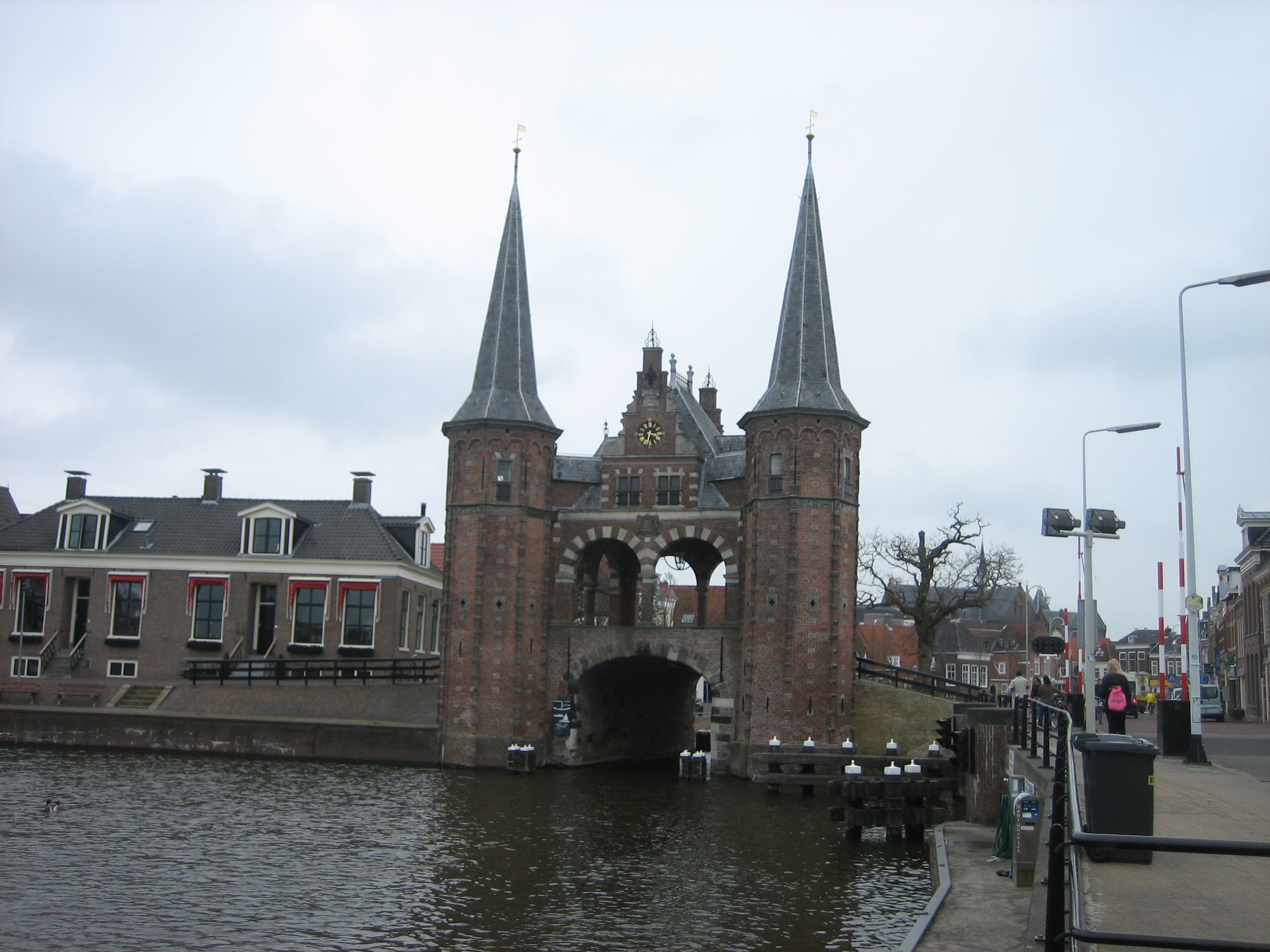 Sneek, watergate